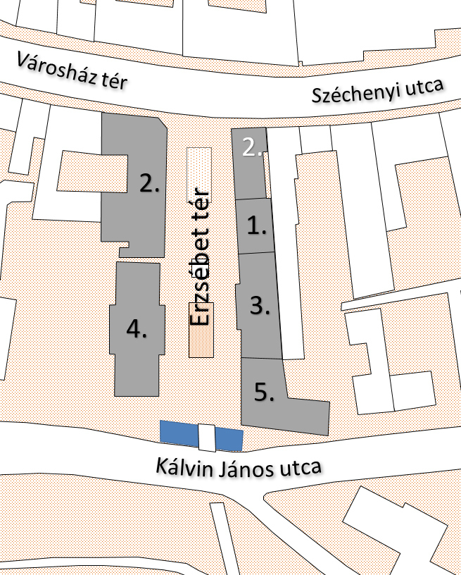 Map of Erzsébet Square, Miskolc, Hungary